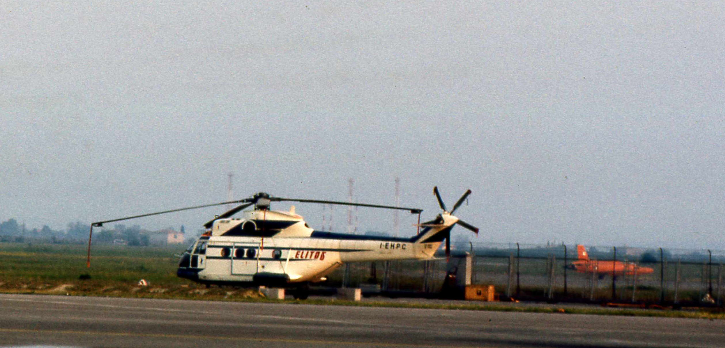 Italy, Pisa International Airport. The defunct Italian helicopter airlines Elitos SA 330J Puma I-EHPC, c/n 1140 taken at Pisa Airport.